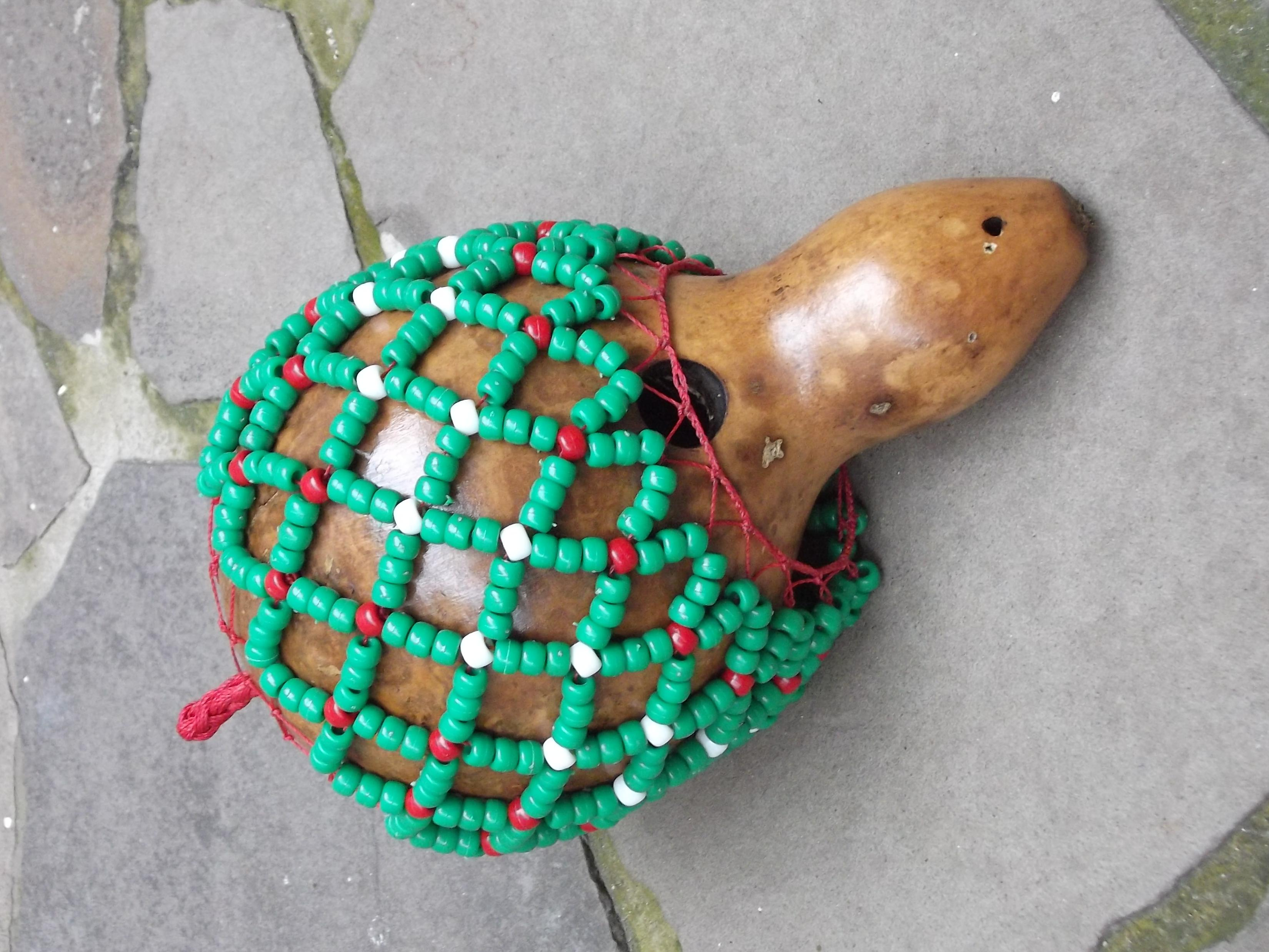 Shekere